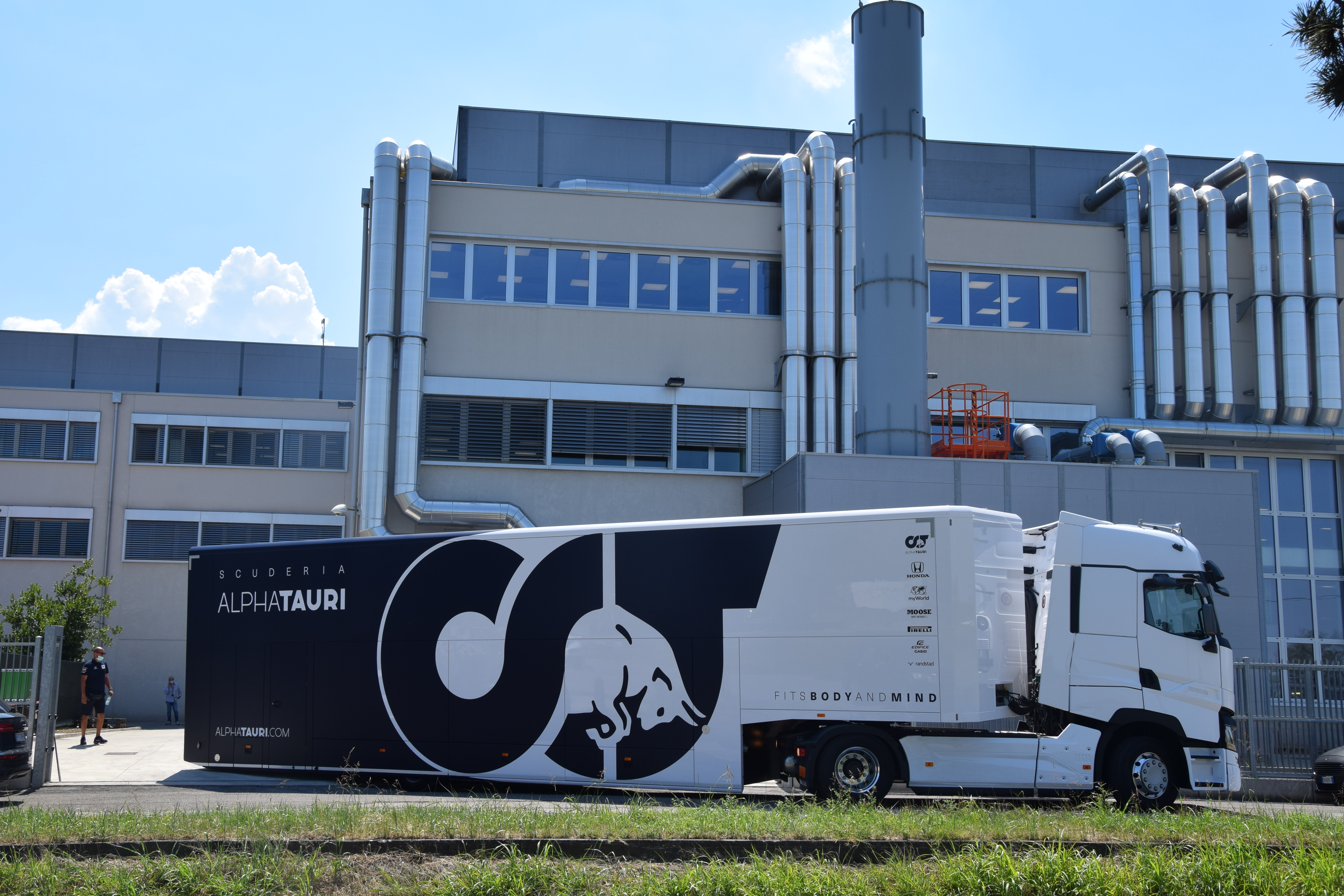 Works Building of Scuderia AlphaTauri in Faenza, Italy, and a team truck returning from 2020 Hungarian Grand Prix